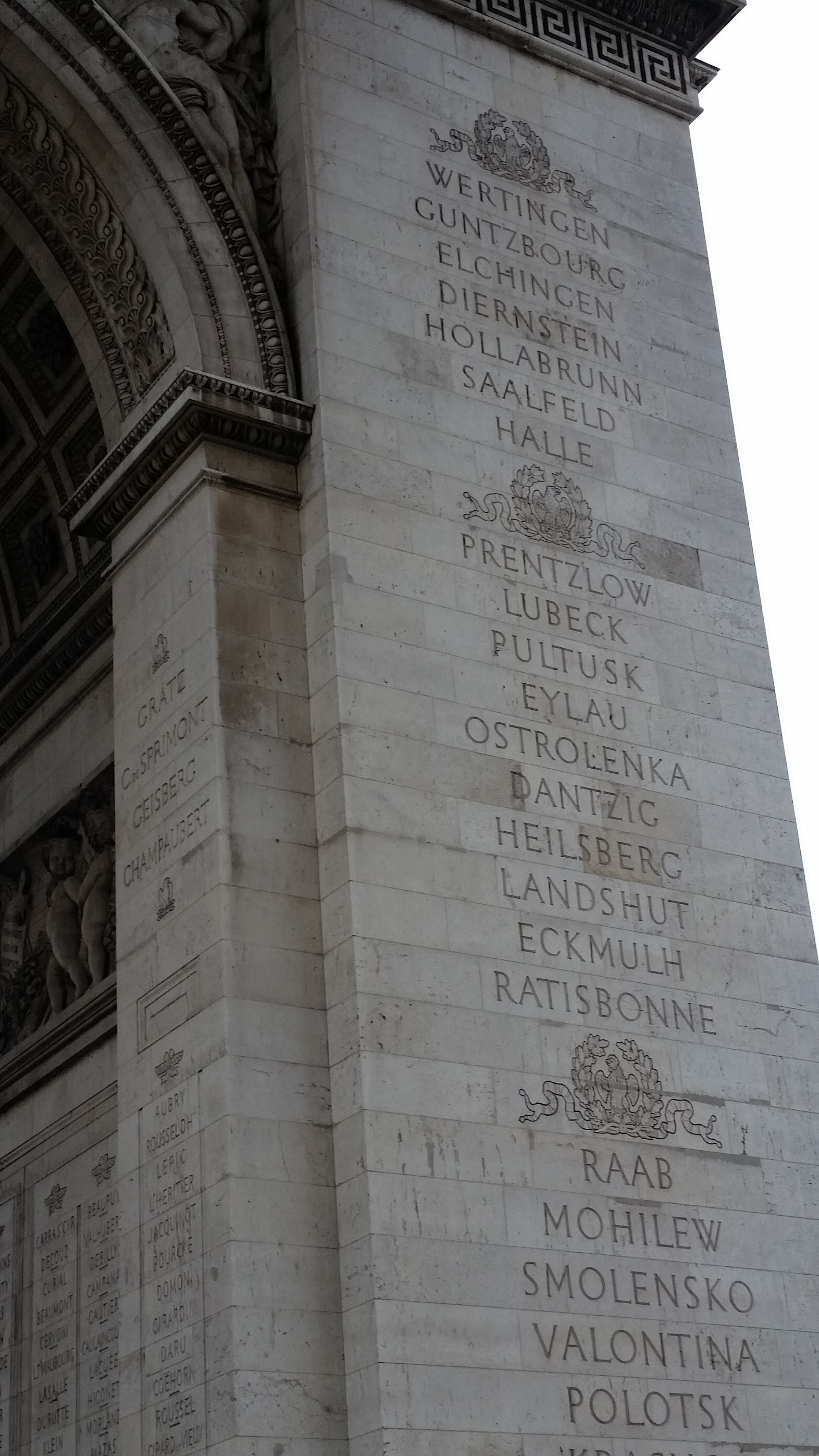 Battle of Ostralenka commemorated on the Arc de Triomphe